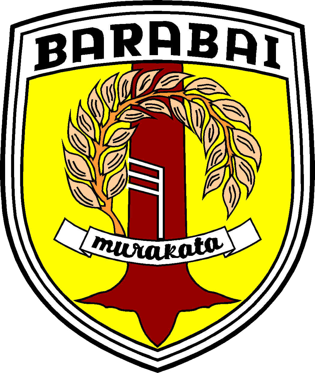 Lambang (Coat of Arms) of Kabupaten (Regency) Hulu Sungai Tengah (Central Hulu Sungai), Provinsi Kalimantan Selatan (South Kalimantan Province, on island Borneo/Kalimantan in id), Indonesia